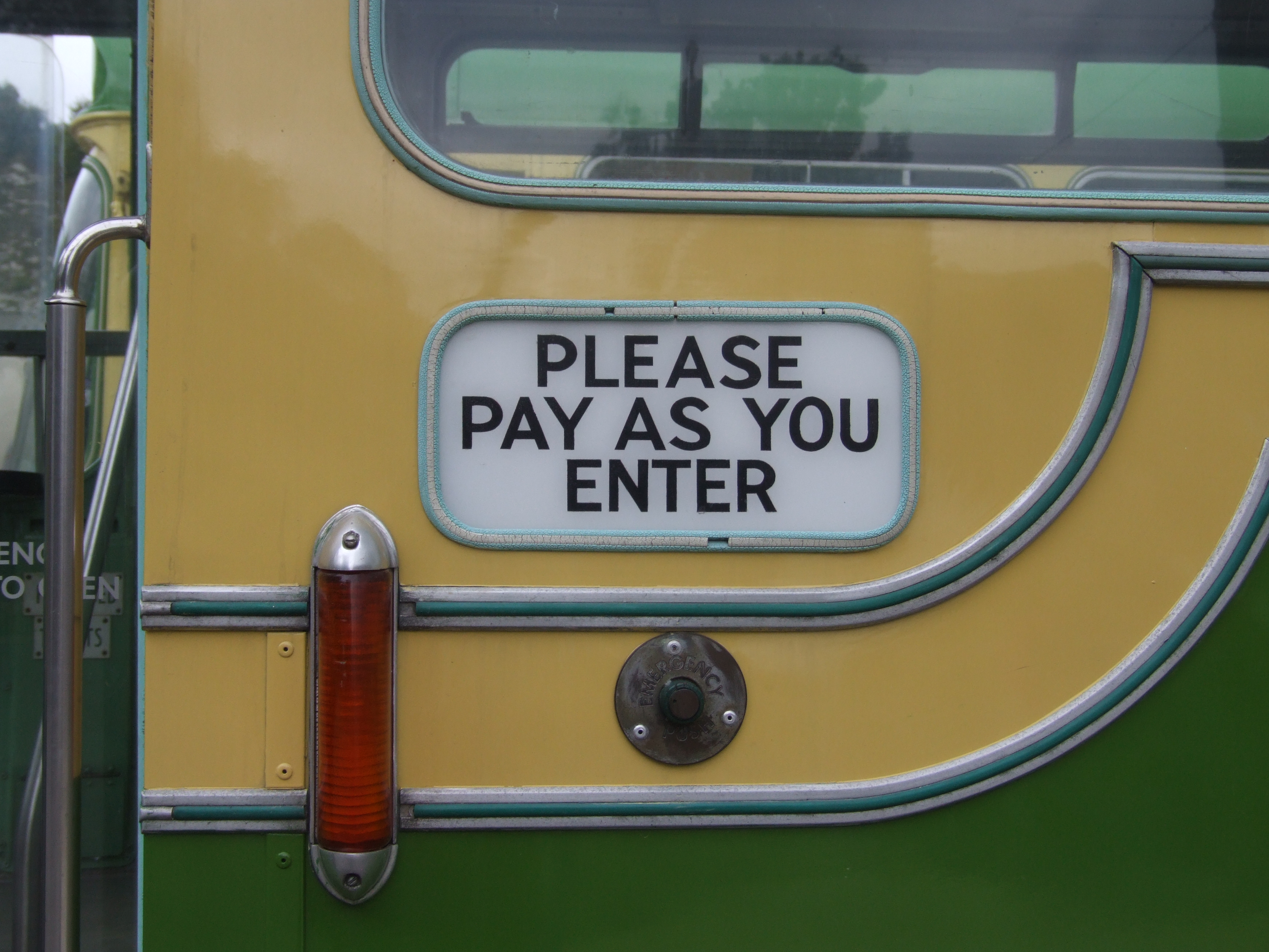 A bit nicer than "PAY ON ENTRY/ CORRECT FARE ONLY"